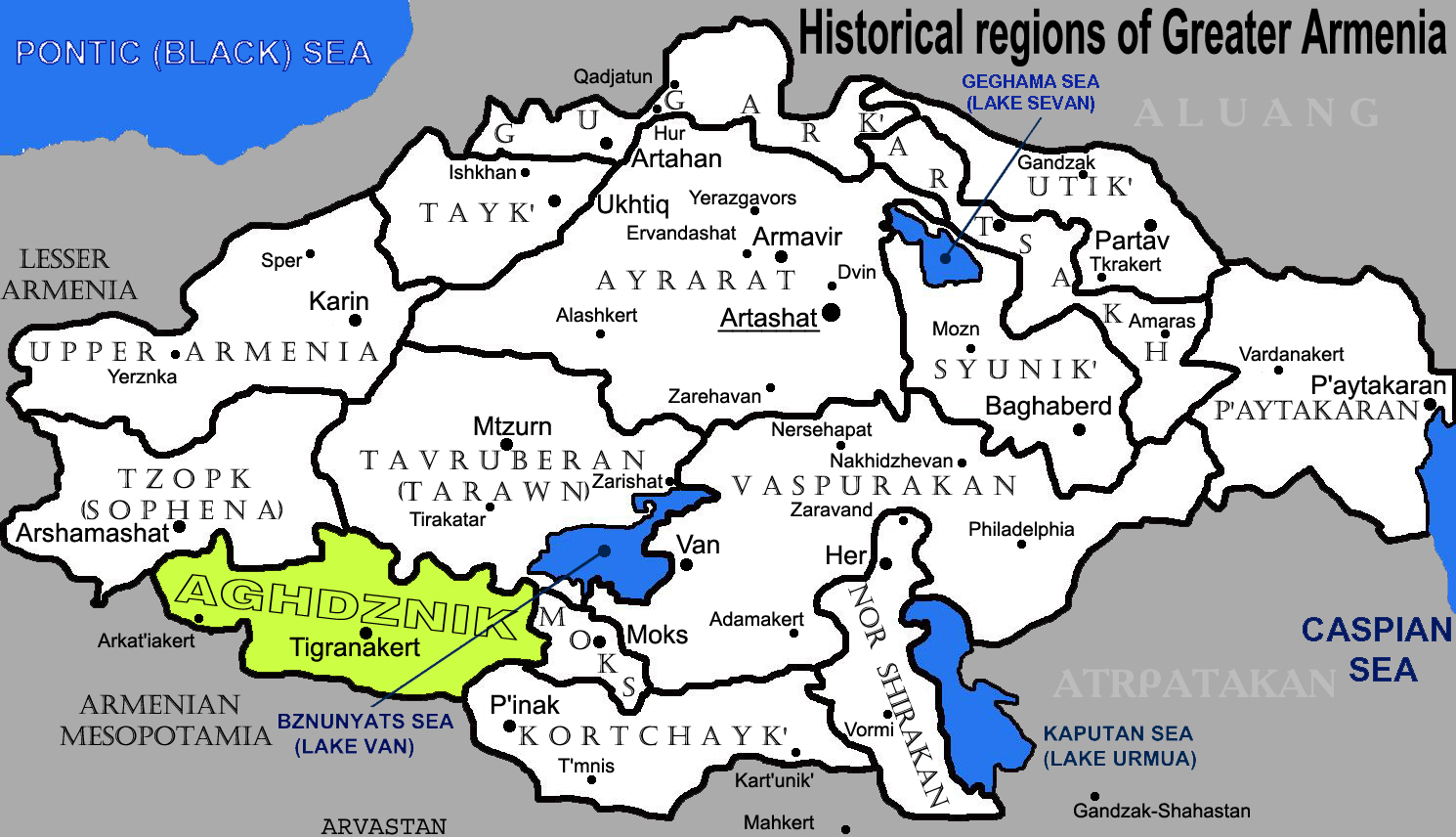 Aghdznik province and surroundings